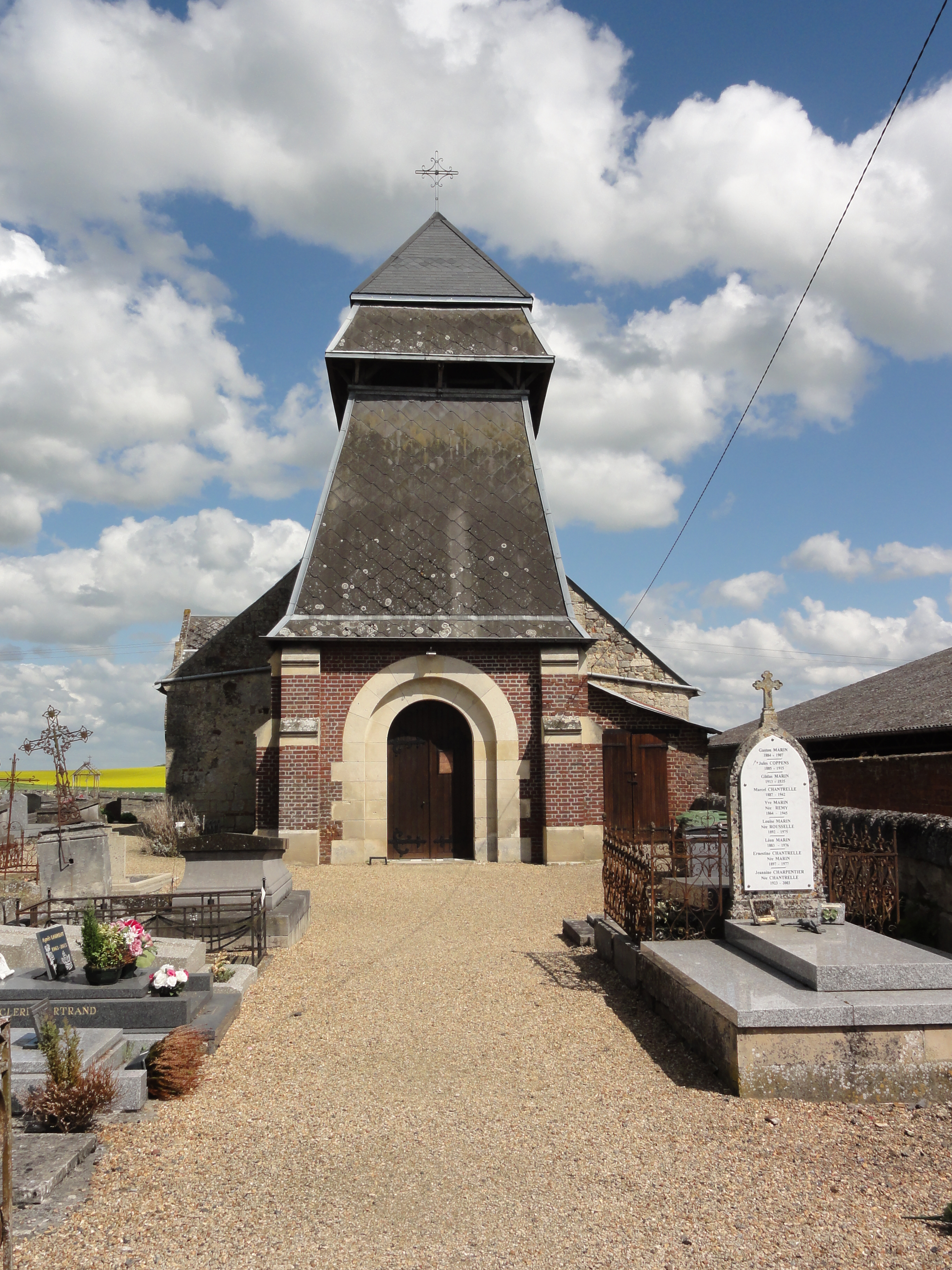 Bertaucourt-Epourdon (Aisne) église